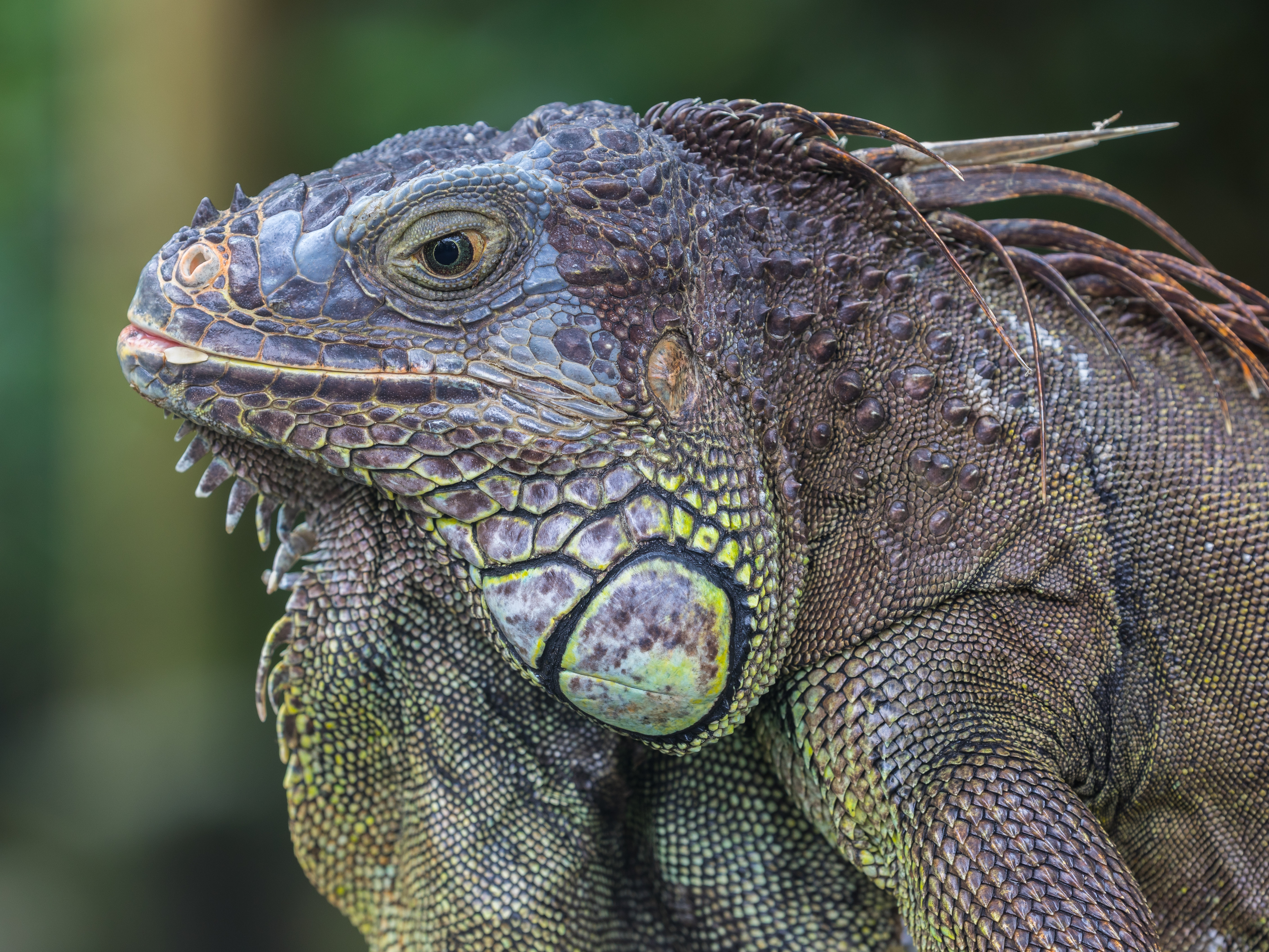 Close-up photograph of an Iguana iguana (Green iguana) taken in the zoo of Singapore. The reptile was not enclosed behind a fence, thus anybody could freely approach as close as wanted